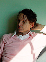 Photograph by Senami d'Almeida Paul Graham, Photographer, New York City, 2006 Creative Commons